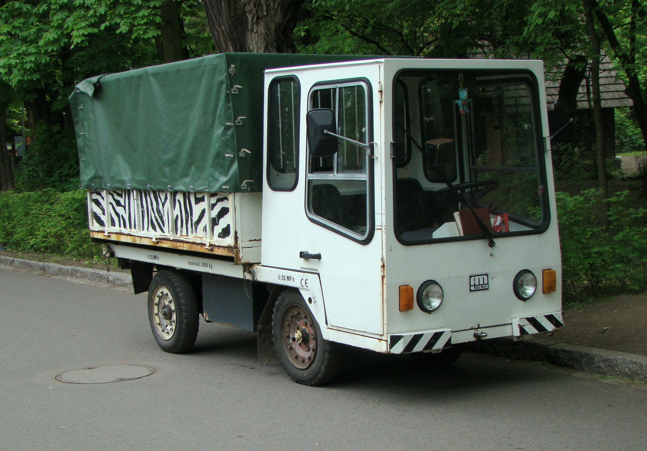 FML Leżajsk WAN electric truck in Wrocław ZOO.